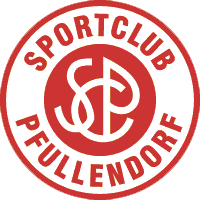 Logo of SC Pfullendorf, German football team